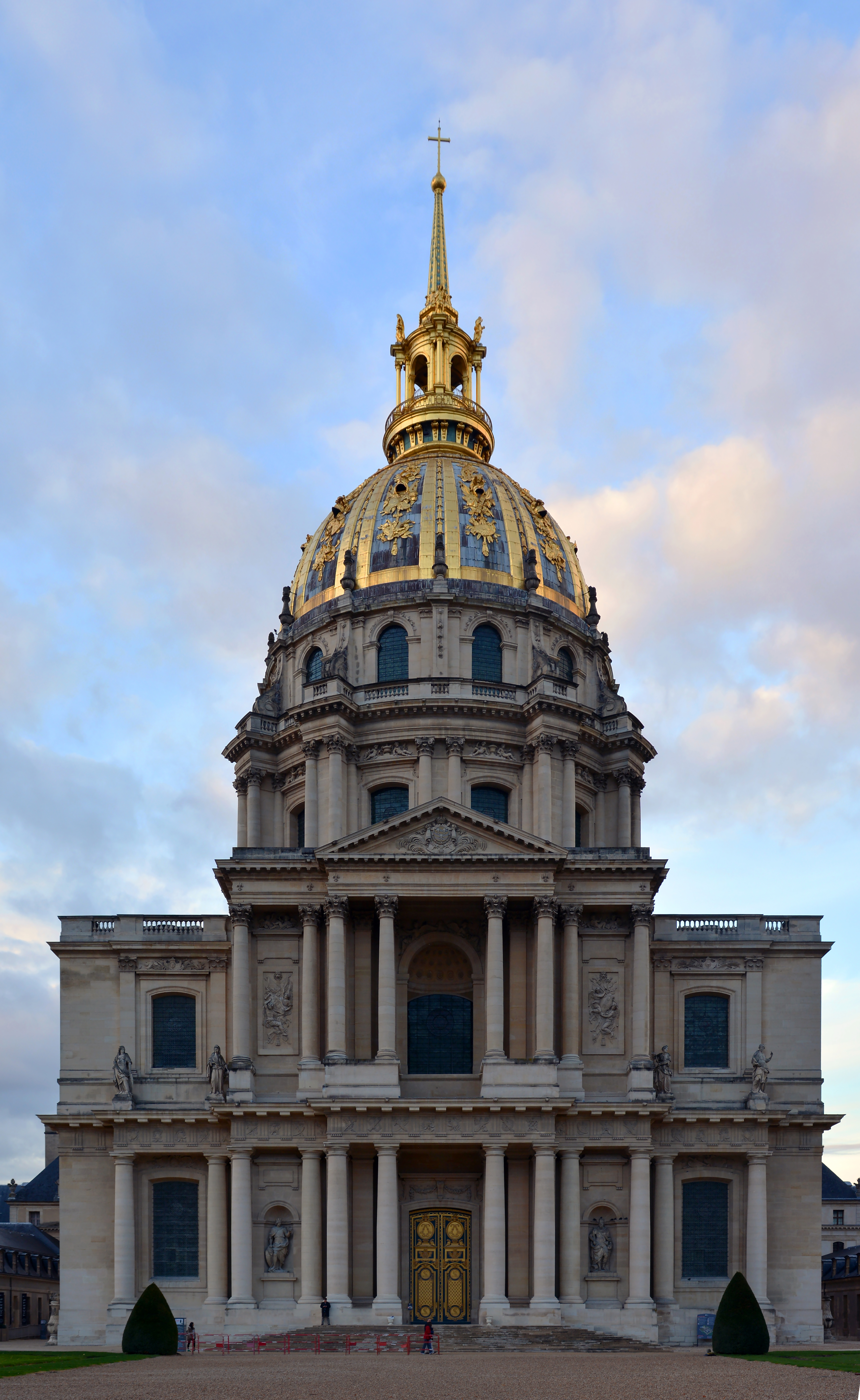 Les Invalides